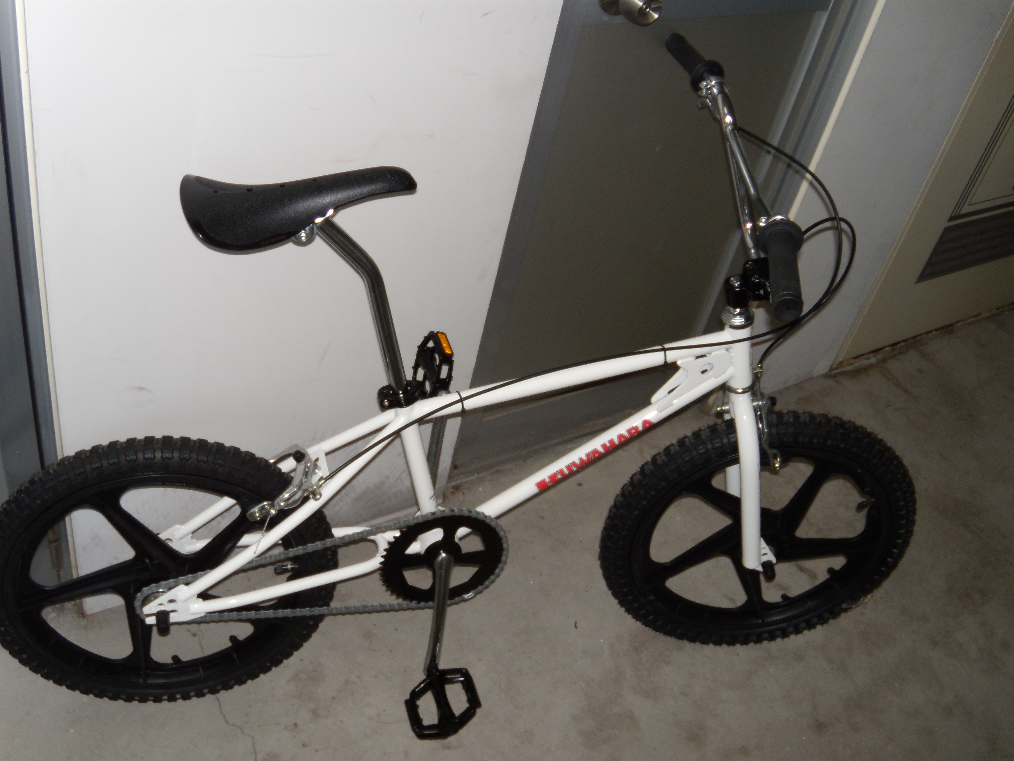 White Kuwahara brand BMX bike (kz-01) assembled in 2010